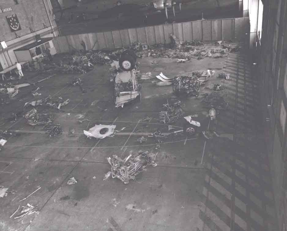 The photograph shows parts of 53-0549 that were salvaged from the Atlantic after the plane ditched and exploded on April 25, 1967 at Nantucket Island, Massachusetts. The parts are displayed in a large maintenance hanger at Otis Air Force Base, Massachusetts where the plane and crew were assigned. First Lieutenant Guenet was the sole survivor. The remaining fifteen members of the crew lost their lives. Colonel James P. Lyle the 551st Wing commander, was piloting the aircraft.